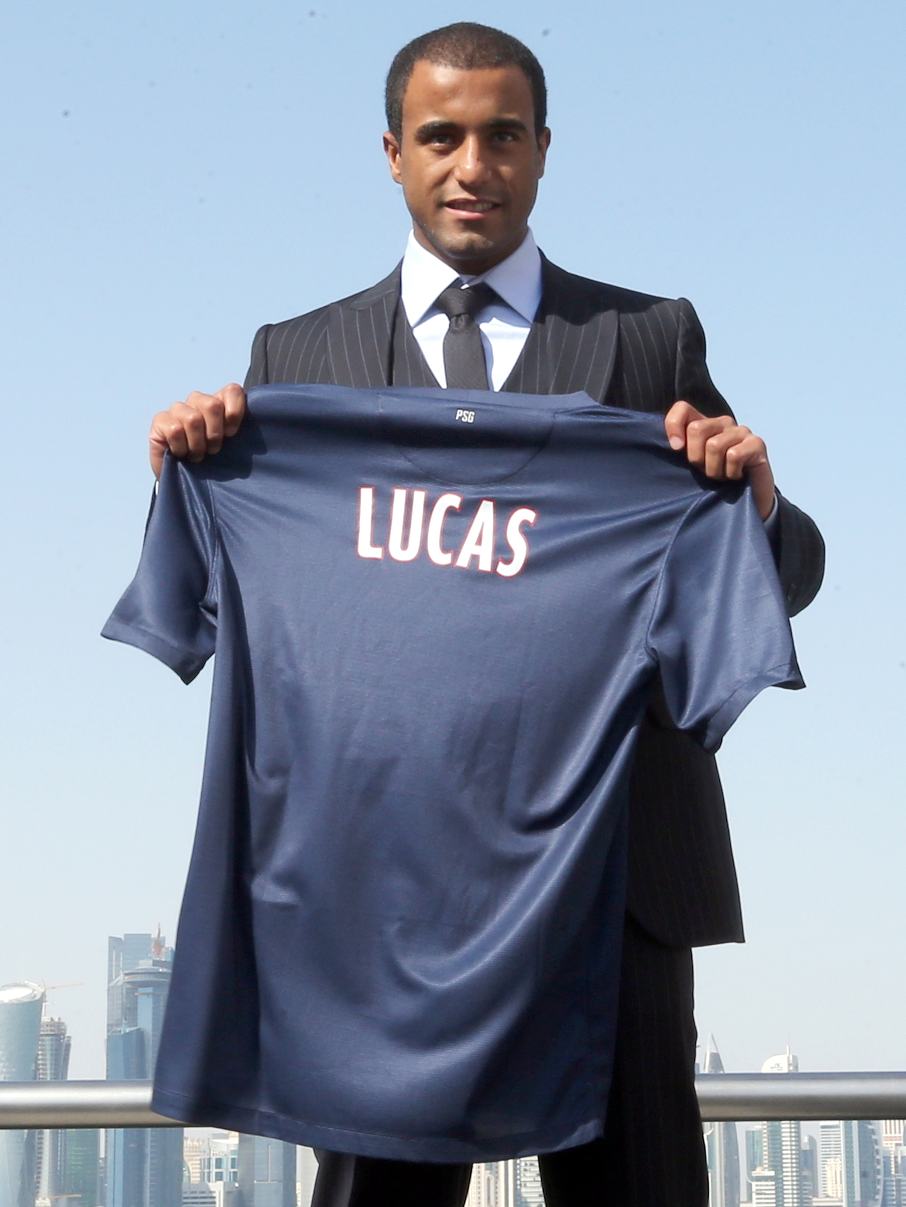 Lucas with PSG shirt